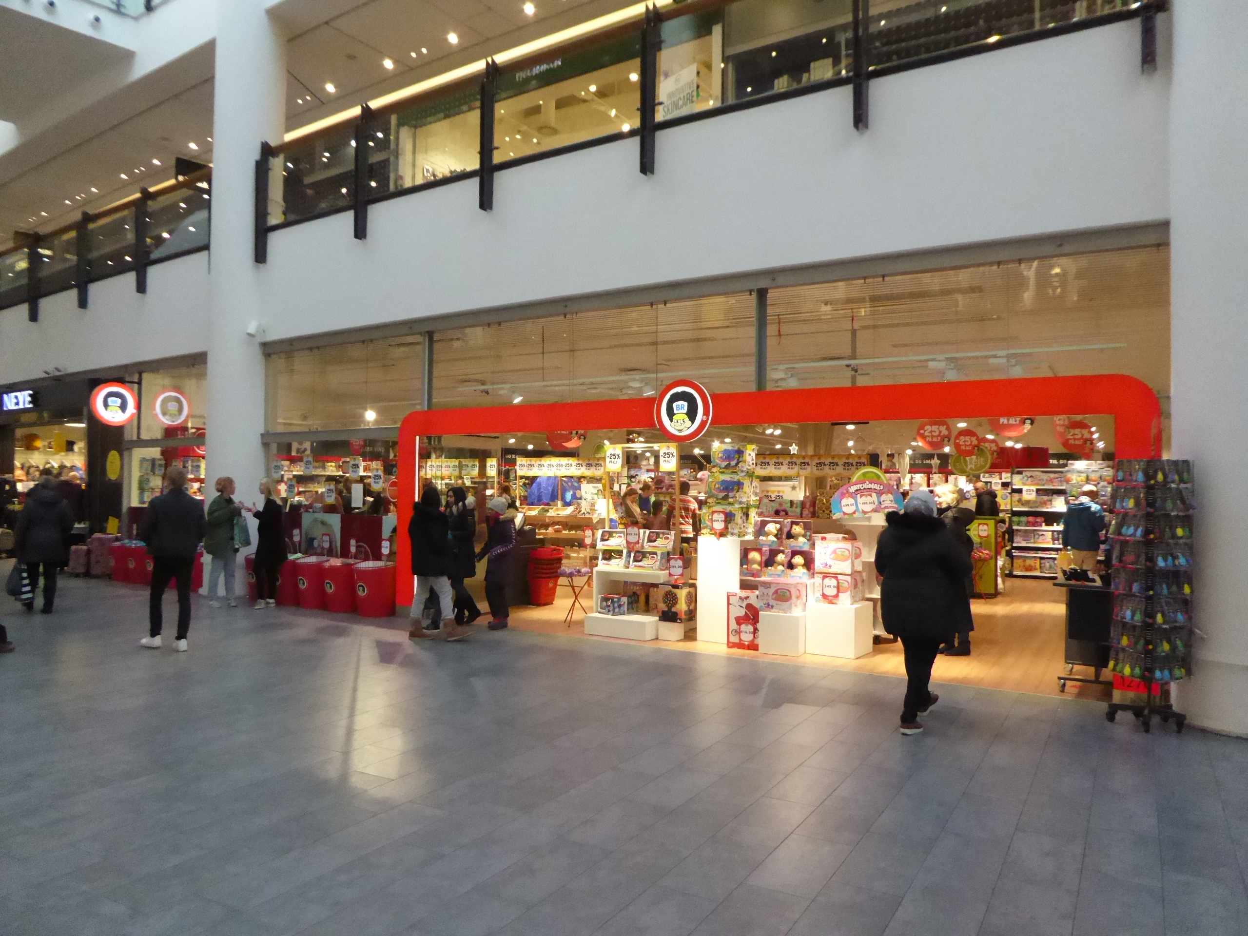 Branch of the toy shop chain BR Legetøj in Frederiksberg Centret in Copenhagen. The company behind the chain went bankrupt at 28 December 2018 and most branches were closed. This one remained open however, at least for a time.